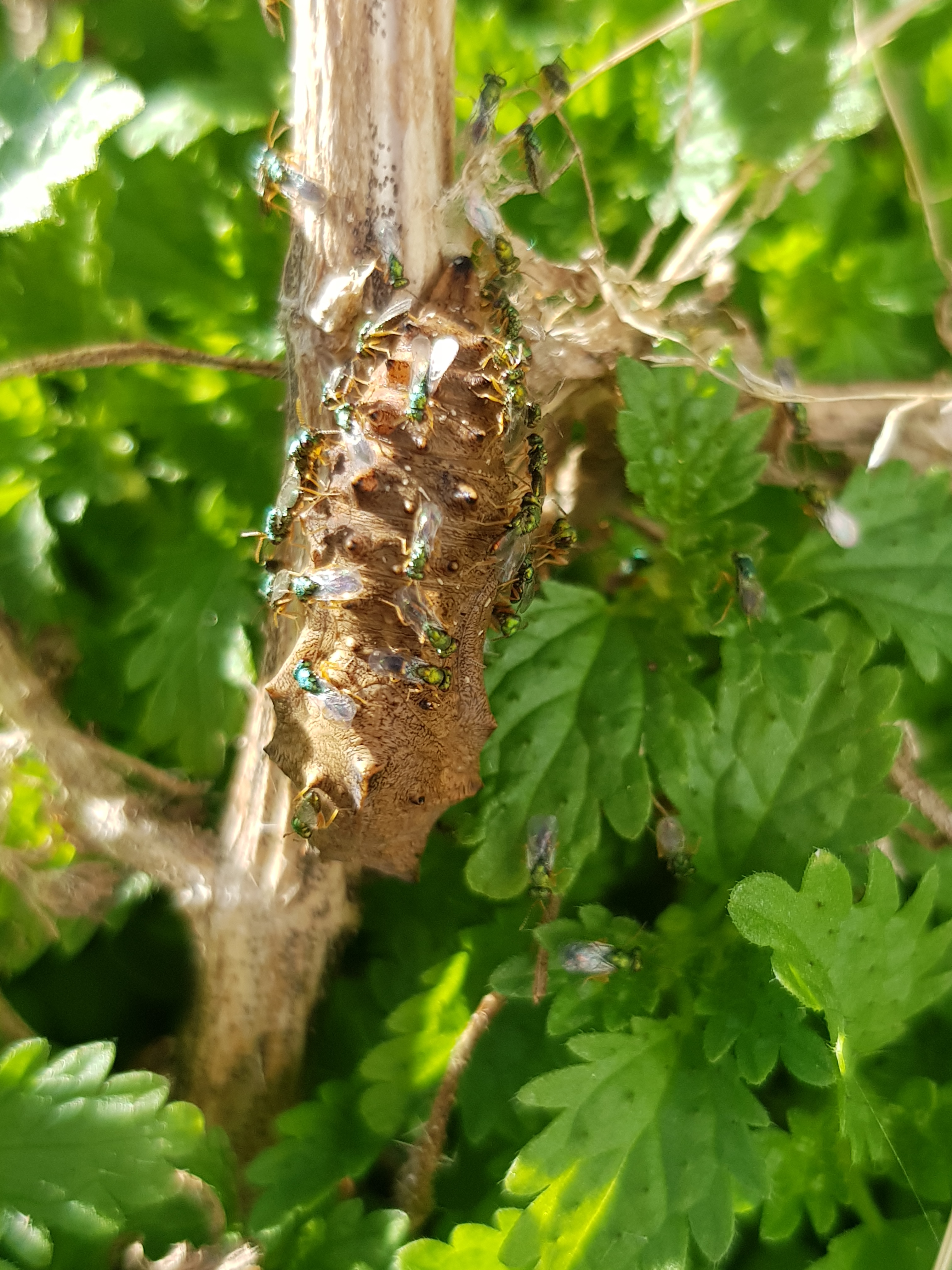 Yellow admiral (Vanessa itea) cocoon infested with Pteromalus puparum.